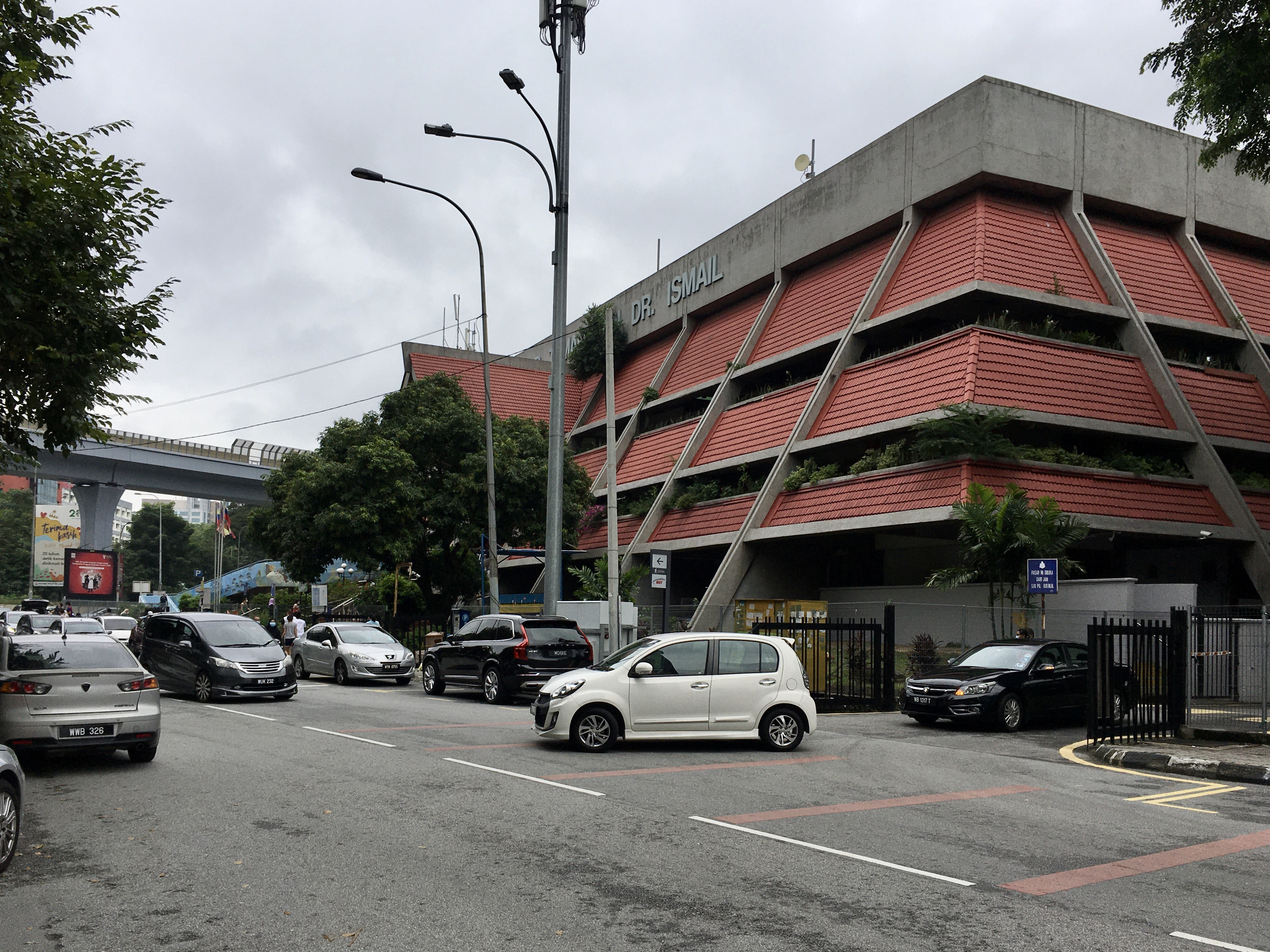 Taman Tun Dr Ismail Market on Jalan Wan Kadir, Taman Tun Dr Ismail, Kuala Lumpur.